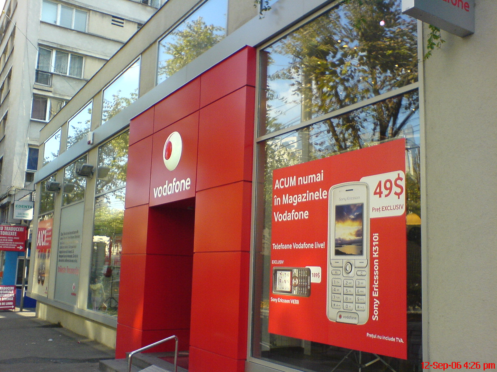 Vodafone Center in Iaşi Photo taken by user: Ahmed Farouk